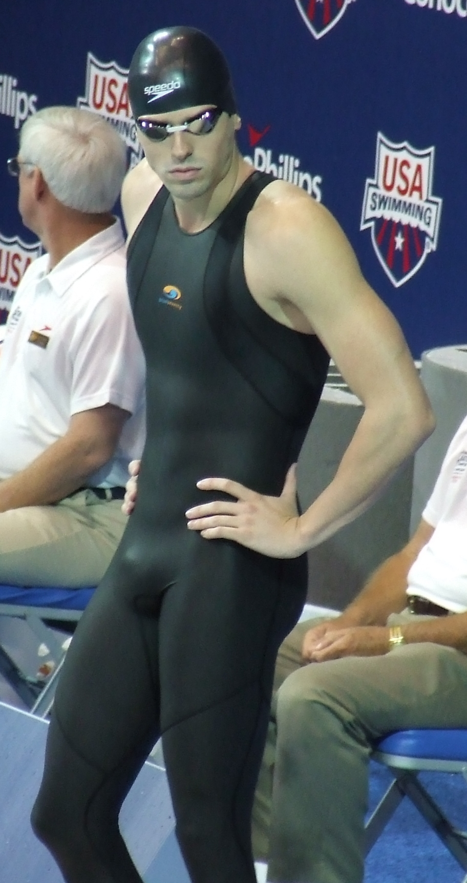 Davis Tarwater at the 2009 U.S. National Championships July 8, 2009